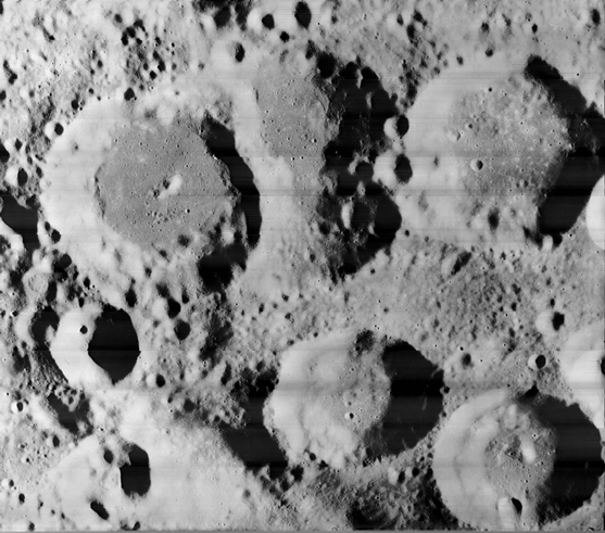 This image from Lunar Orbiter 1 shows the craters Nobili (upper left), Jenkins (upper right), Weierstrass (lower center) and Van Vleck (lower right). The preview image 1025_med.jpg was reduced in size to 33% of normal, then cropped to focus on the craters.